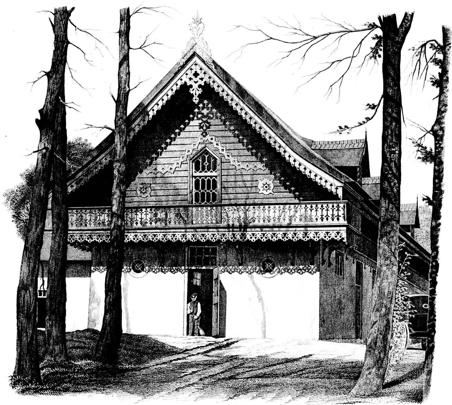 Coach house and stable, landgoed Beekhuizen, perspective. 1860-1861 (construction).